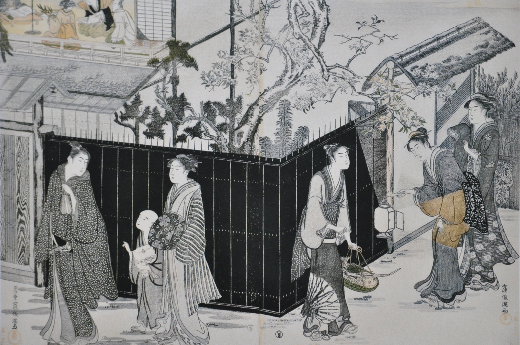 Kubo Shunman's famous triptych Departure at night for a poetical contest, ca. 1787